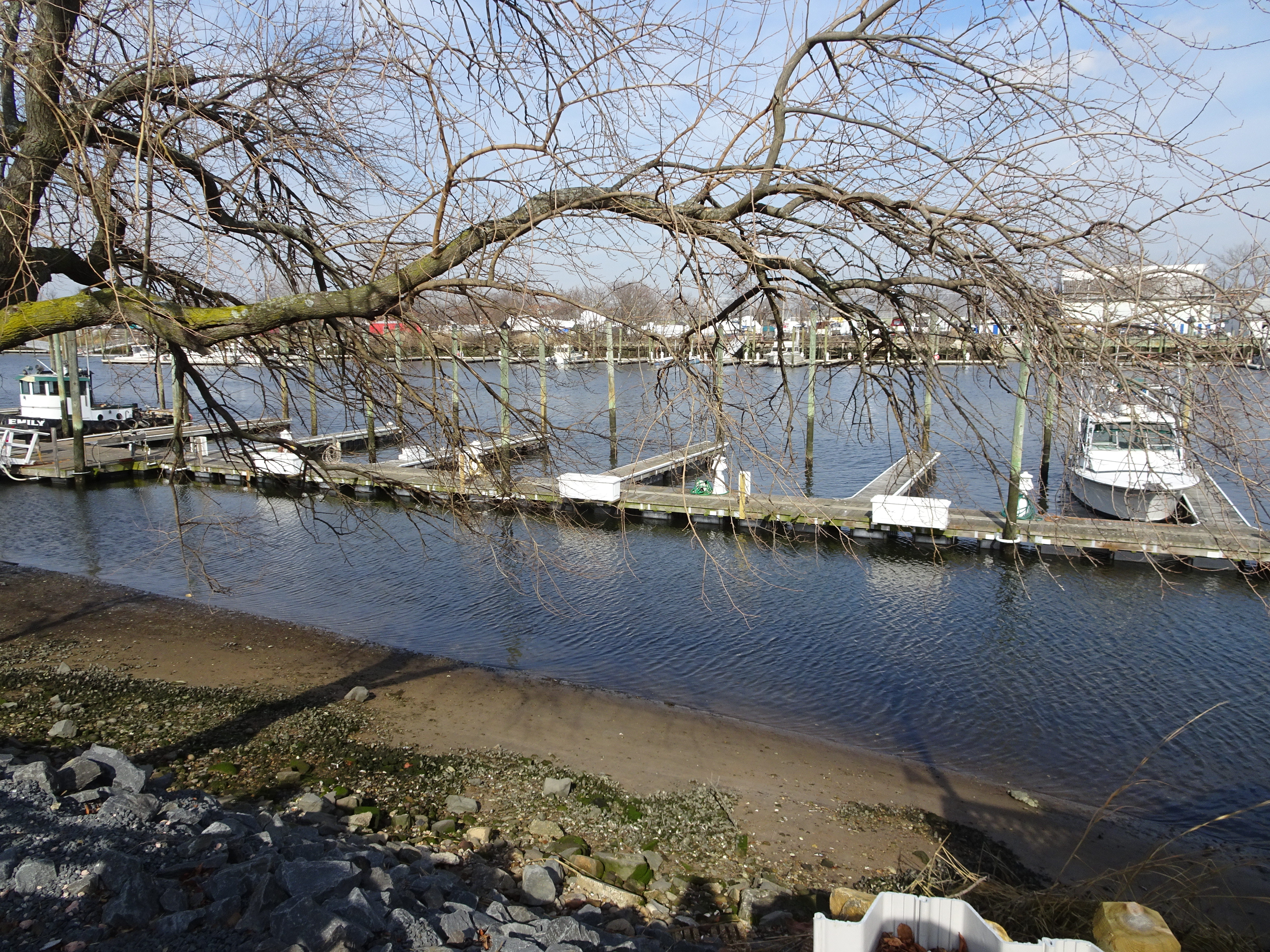 Looking north at boats docked at Hudson River Yacht Club Inc.